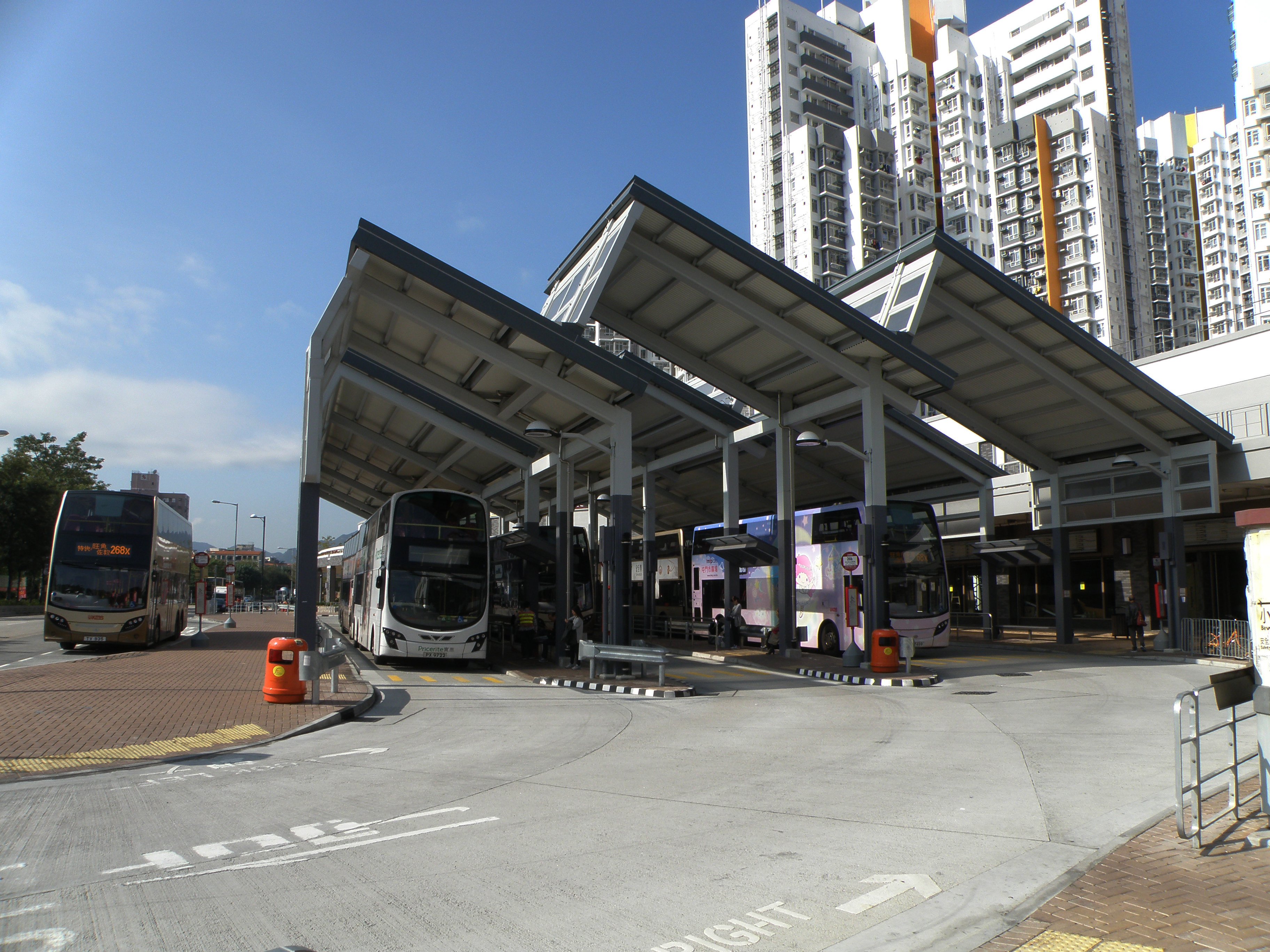 Hung Fuk Estate Public Transport Interchange in Hung Shui Kiu, Hong Kong.